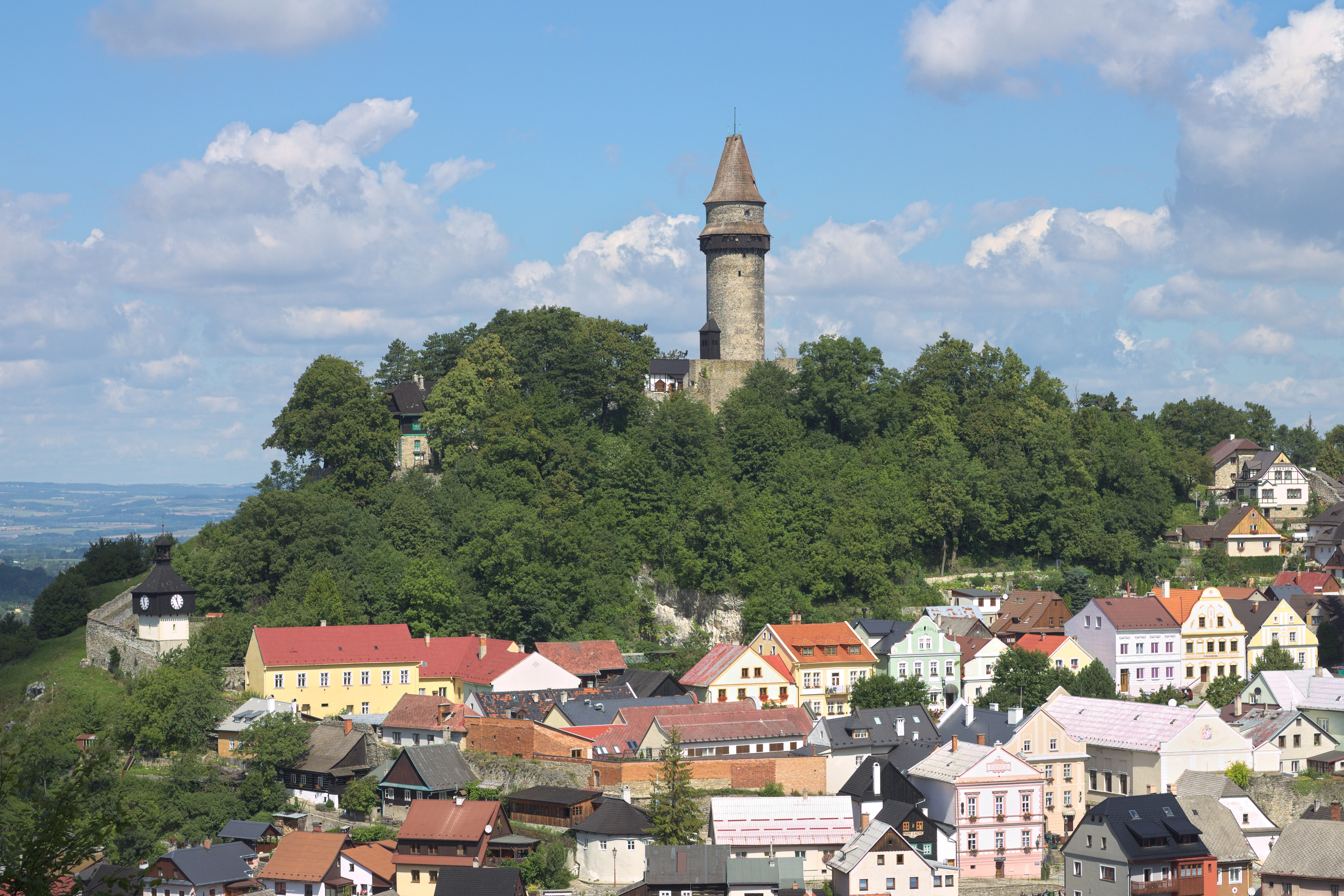 Stramberk castle and tower, view from Kotouc